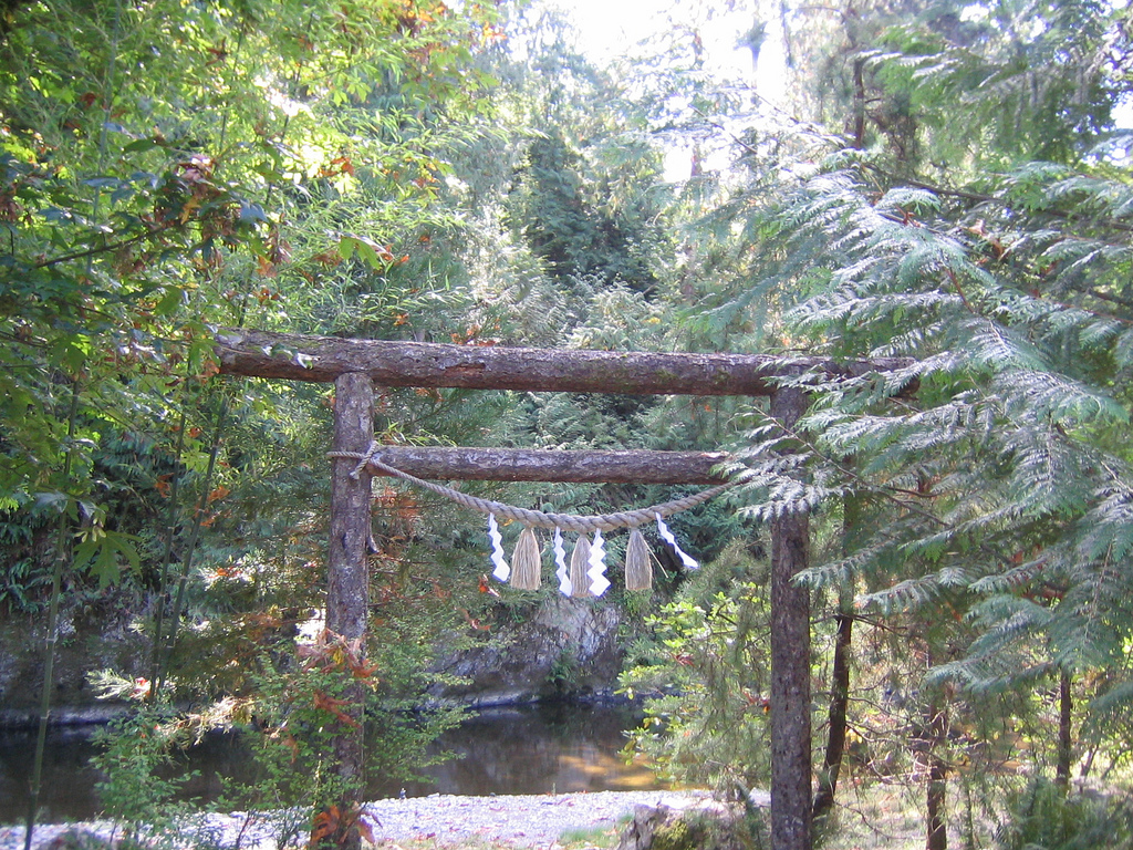 Taken at the Tsubaki Grand Shrine of America, Granite Falls, WA